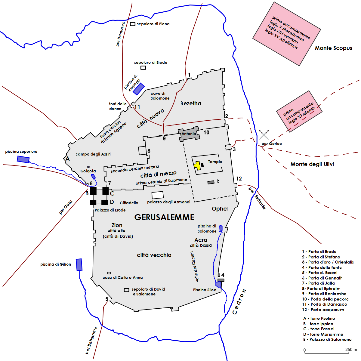 Jerusalem at the time on siege of 70 - 1st step